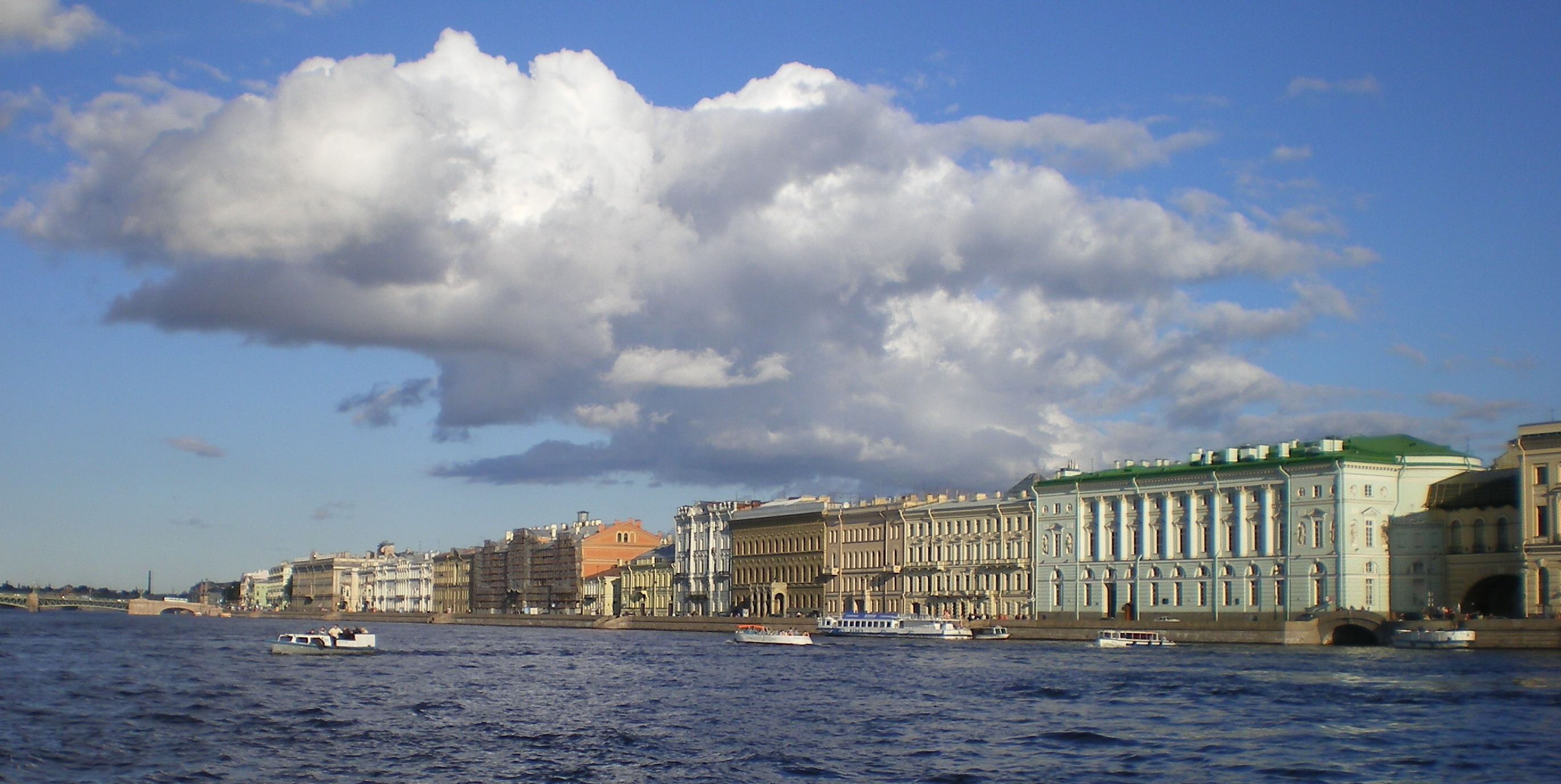 Dvortsovaya Embankment